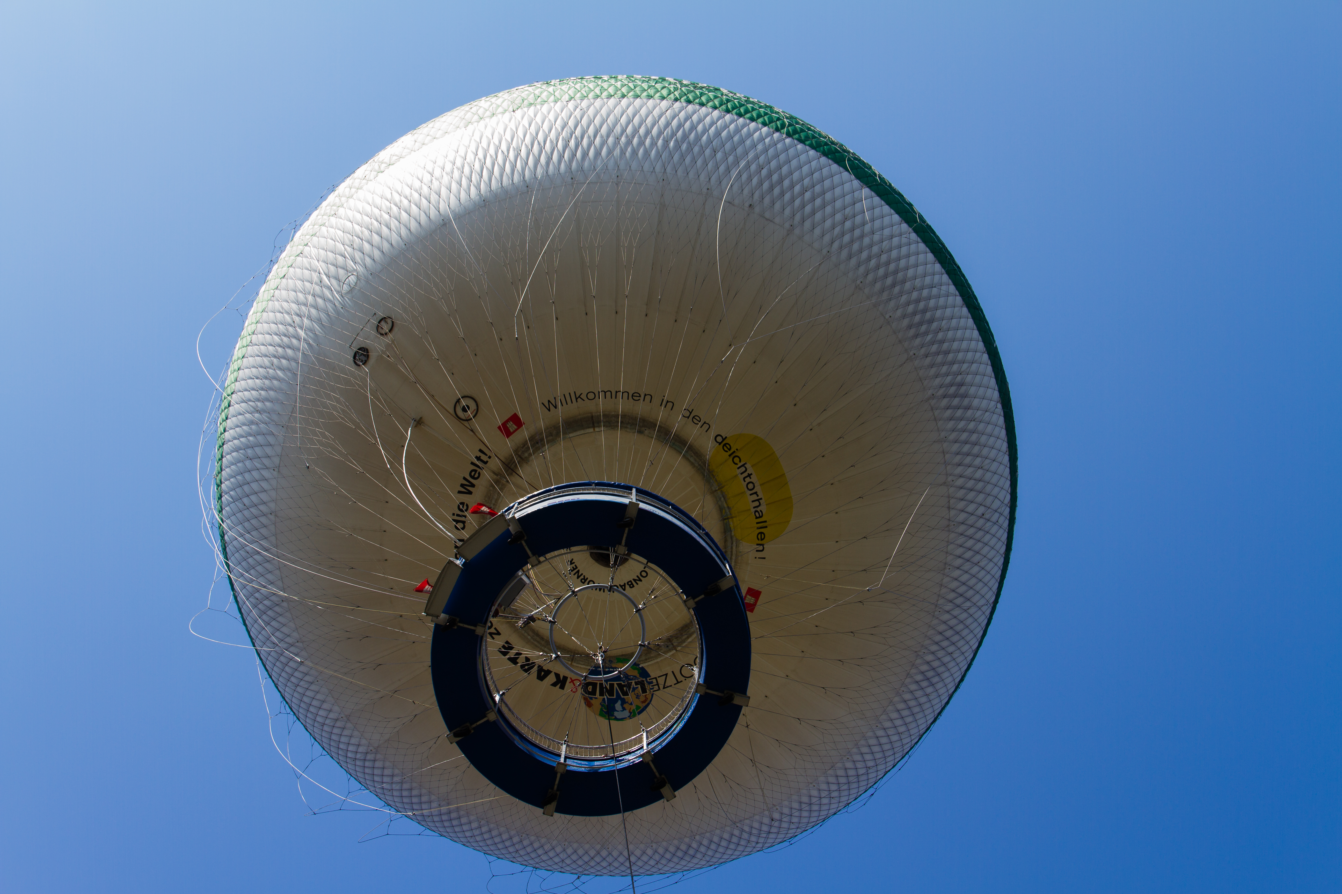 The Highflyer Hamburg is a moored balloon in 150 m altitude above Hamburg. It allows a view over the inner city, the harbour and the river Alster.